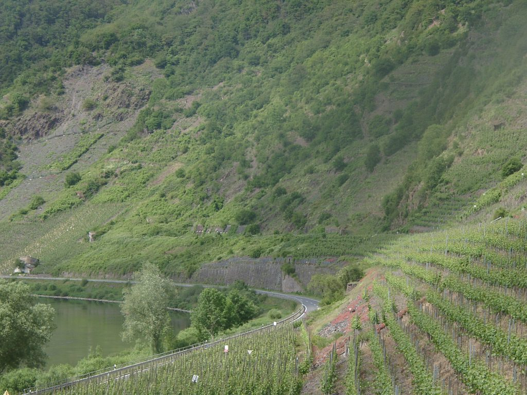 View towards the former southern entrance of the Treiser Tunnel, destroyed in 1946, north of the village of Bruttig on the Mosel river. The entrance itself was a little left of the wall with the white dots. Remnant of a planned and partially built, but never completed strategic railway. Two water tanks built of concrete can be seen in the far left. The watertanks, built in 1944, were part of the constrution site for electronic devices within the tunnel. Inmates of the Concentration Camp of Bruttig-Treis had to work there.